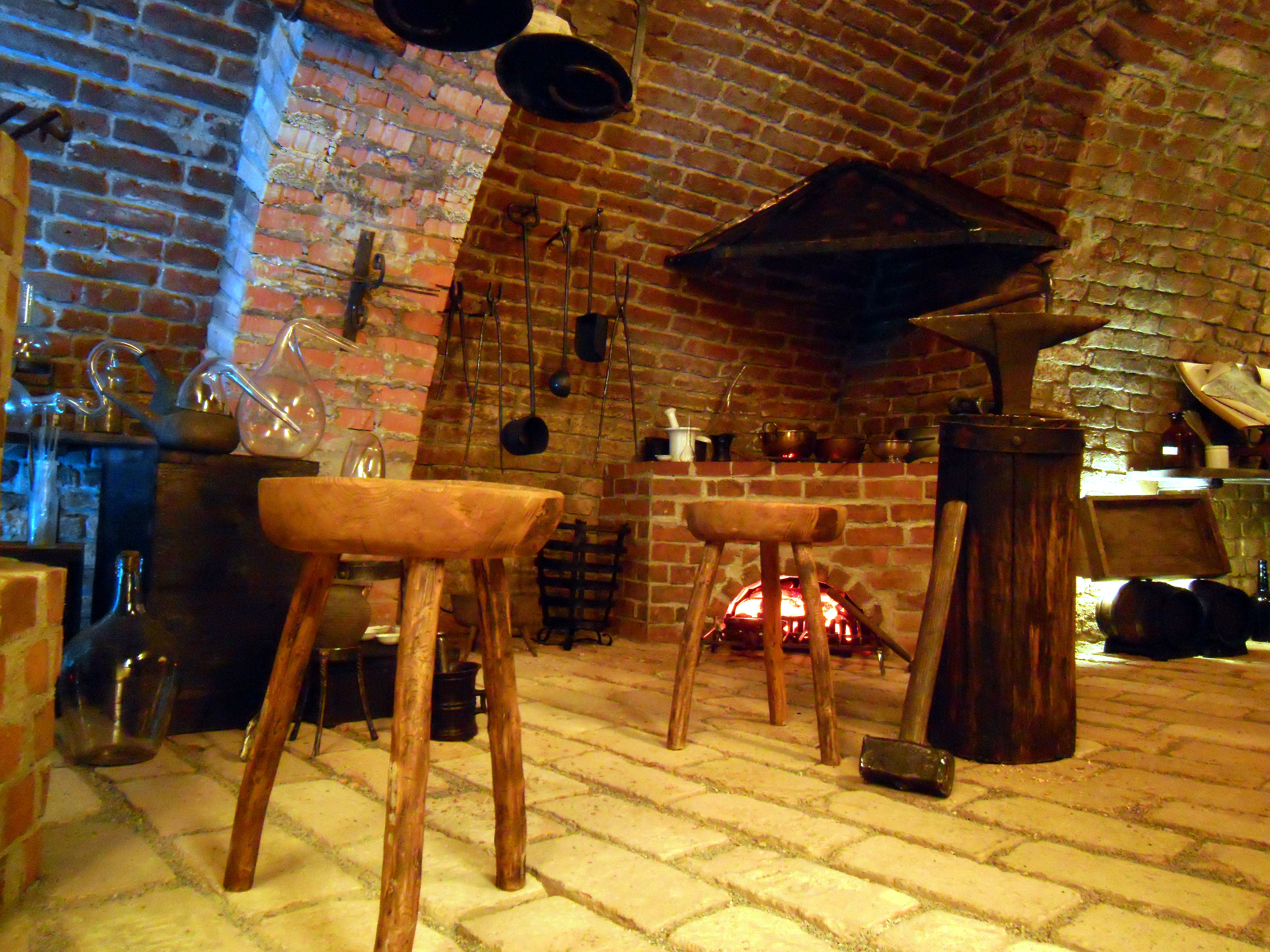 Alchemical kitchen (lab)